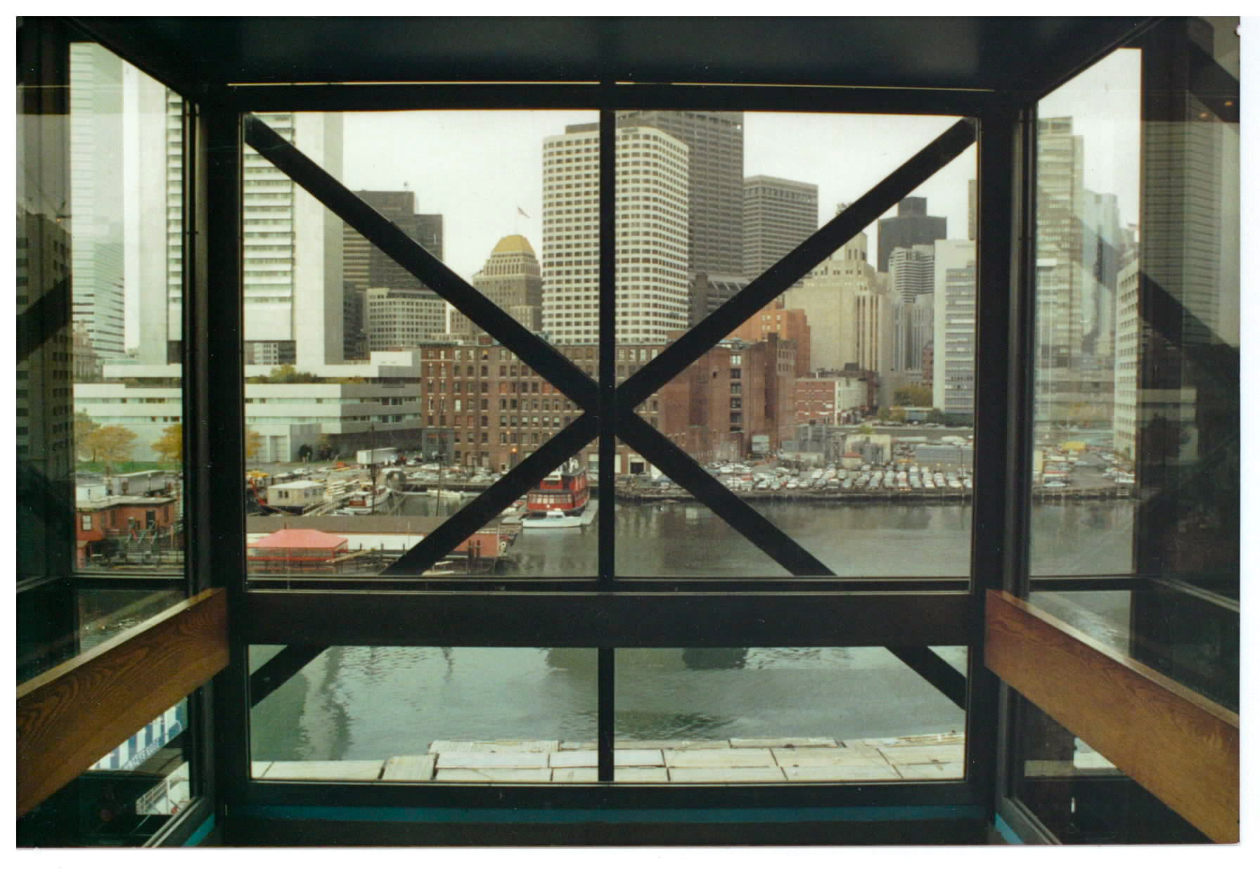 Photograph of downtown Boston looking out from the main Computer Museum elevator.